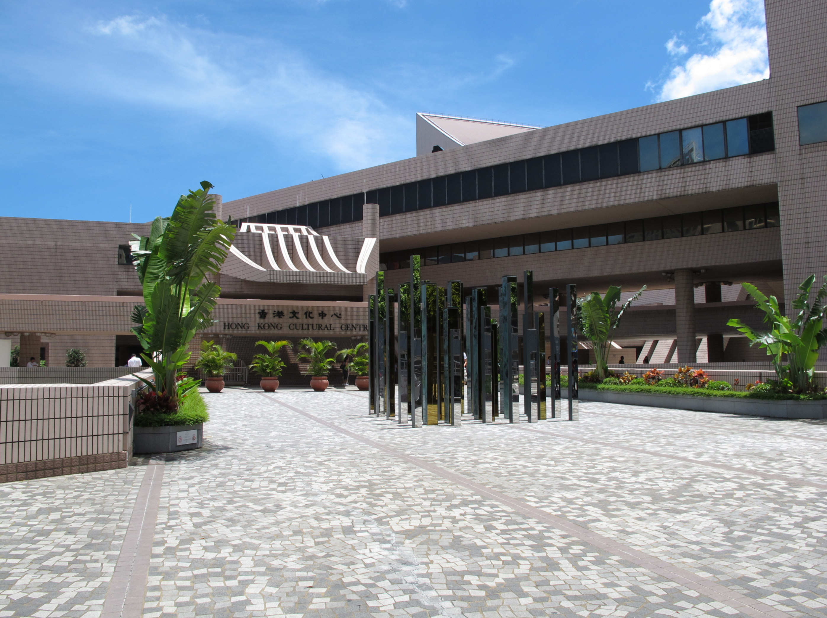 Hong Kong Cultural Centre Enterance